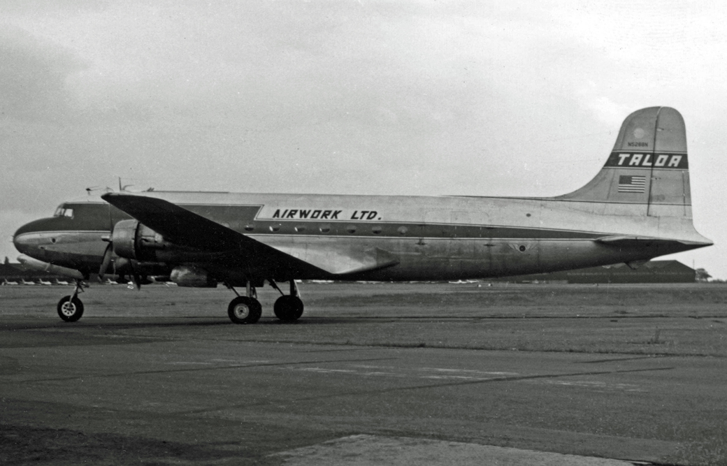 Douglas R5D-1 Skymaster at Manchester (Ringway) Airport leased from Transocean Airlines operating an Airwork Ltd all-freight scheduled service from London via Manchester to New York Idlewild.